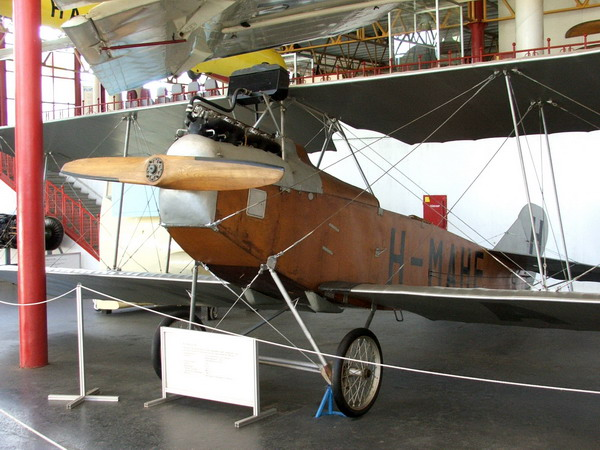 Hansa-Brandenburg B.I exhibited at the Budapest Aviation Museum